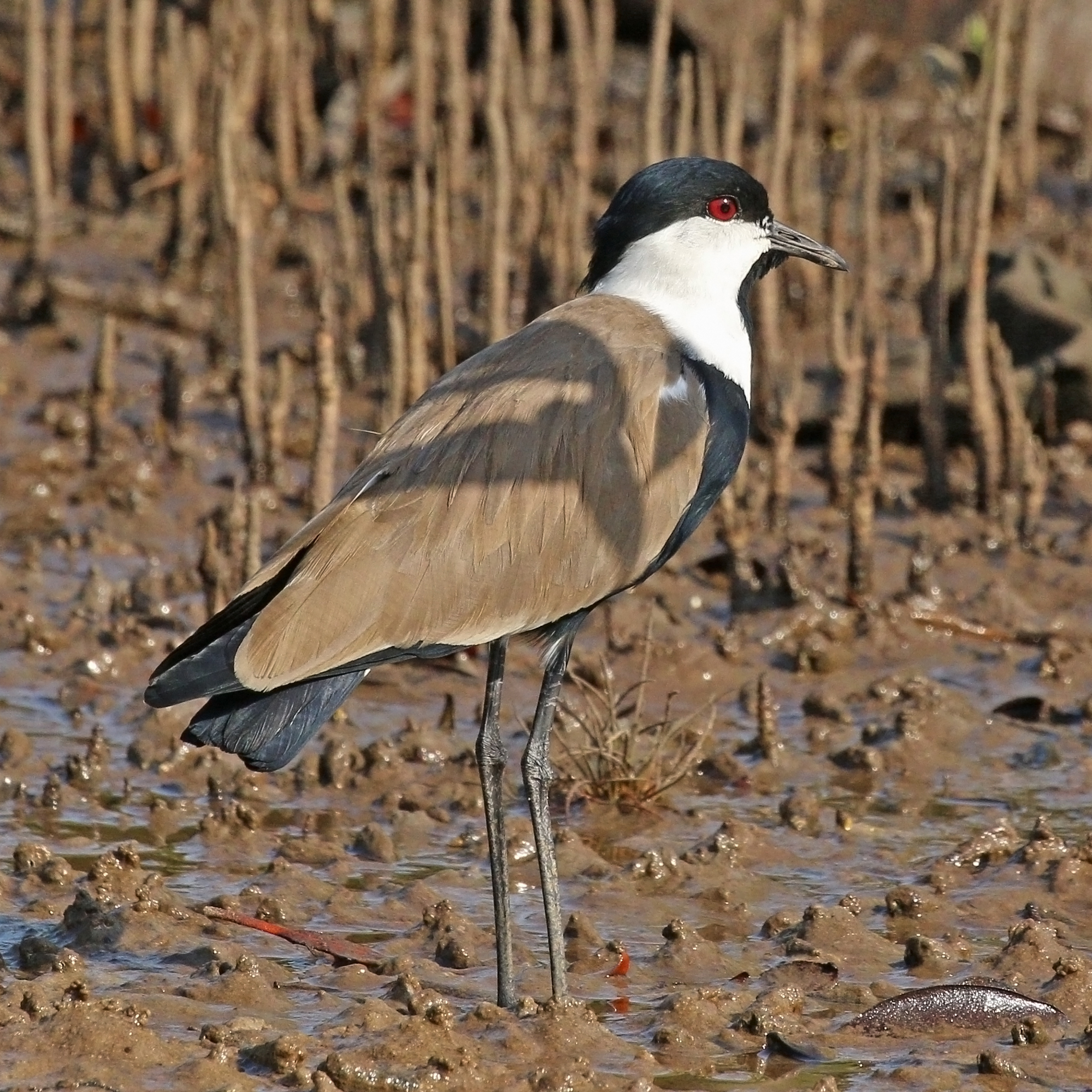 Spur-winged lapwing (Vanellus spinosus), Gambia